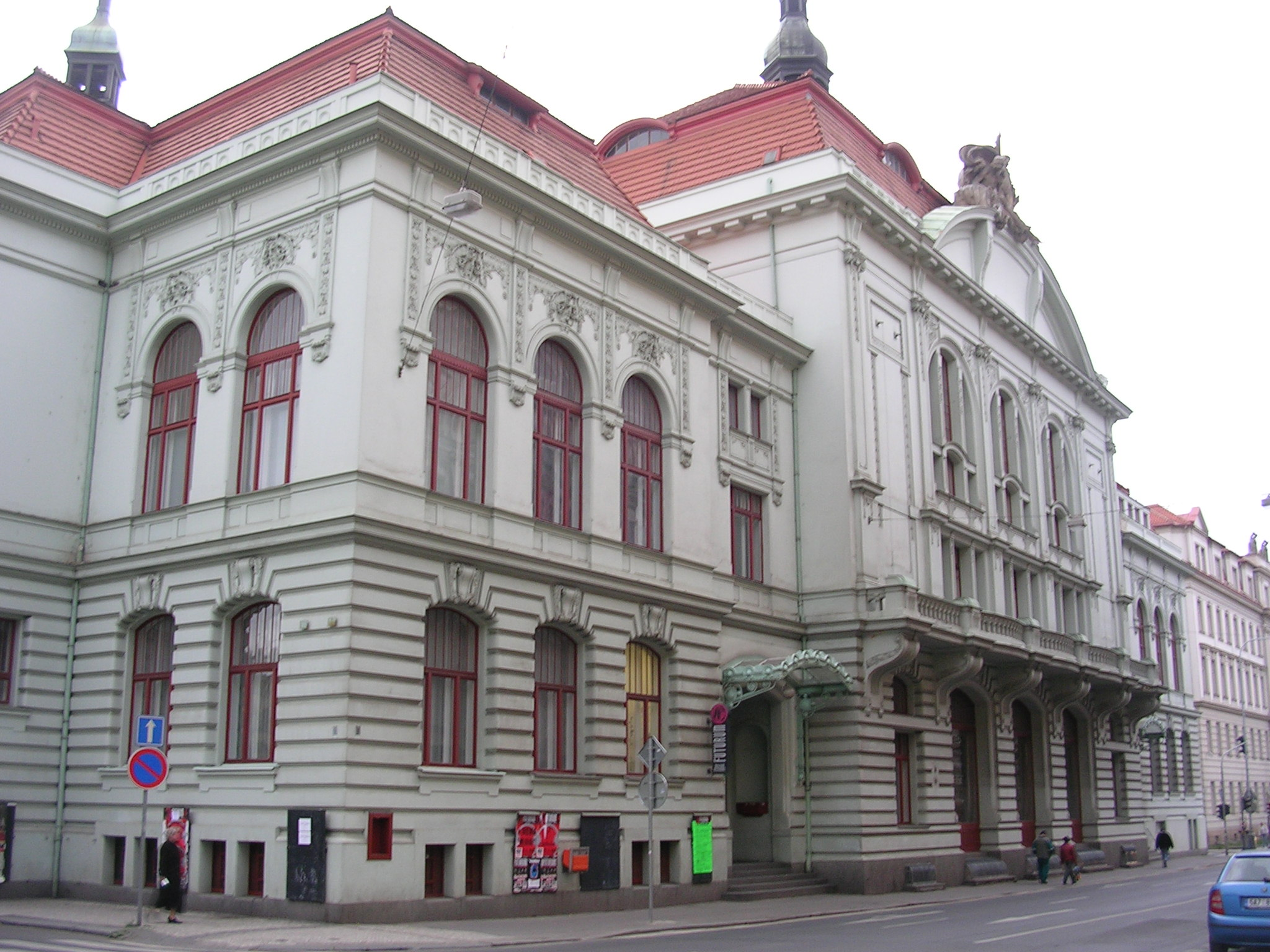 Smíchov, Prague, the Czech Republic.